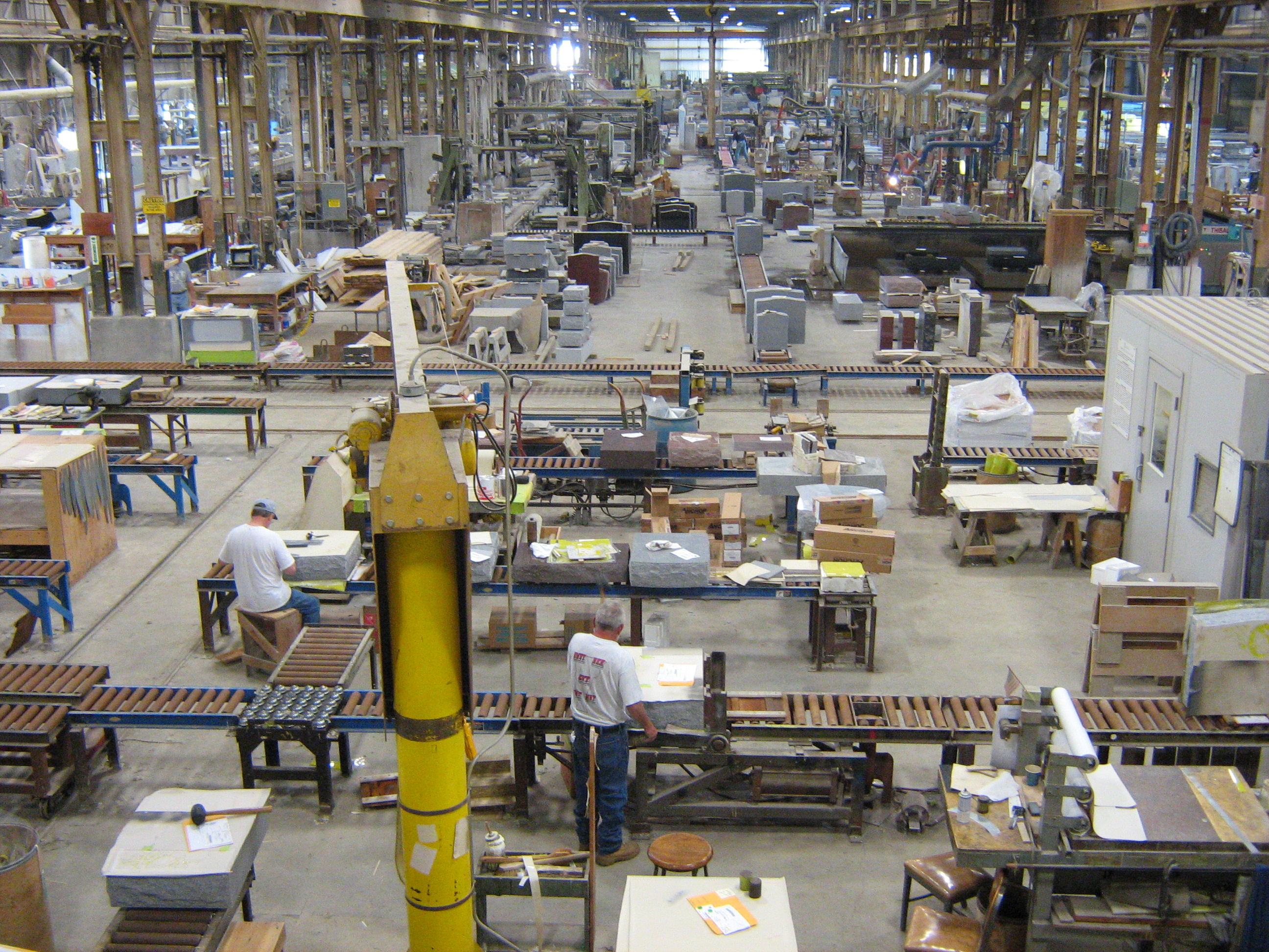 Rock of Ages Corporation granite shed in Barre (Graniteville), Vermont